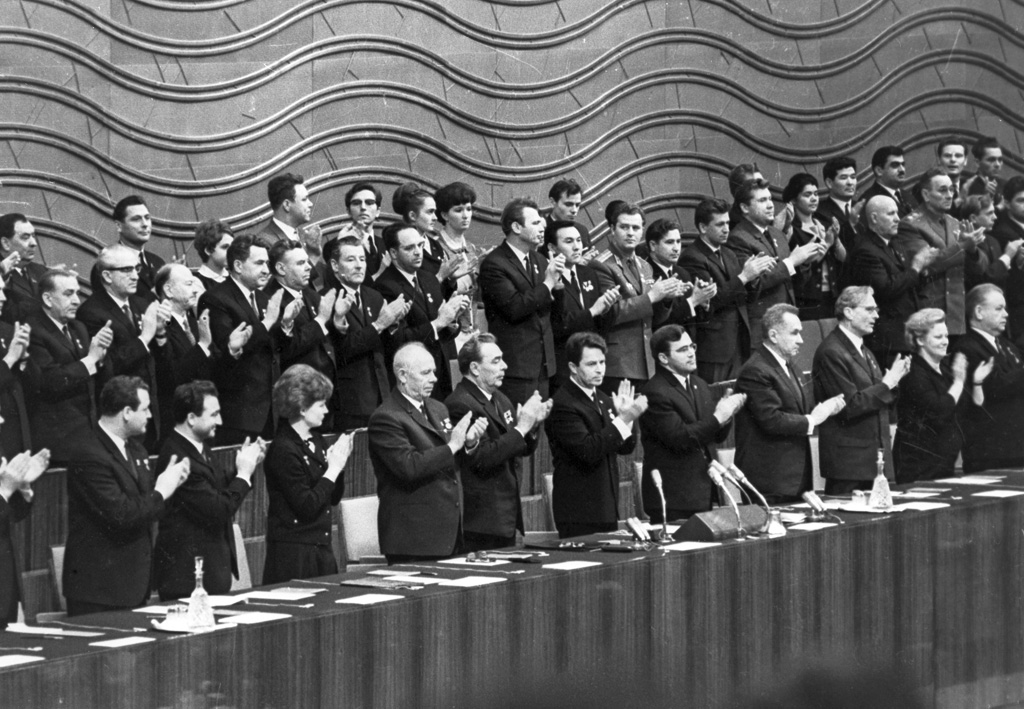 “Young Communist League Central Committee holds plenary session”. CPSU General Secretary Leonid Brezhnev, center, presiding a plenary session of the Young Communist League Central Committee dedicated to the organization's 50th Anniversary, at the Kremlin Palace.